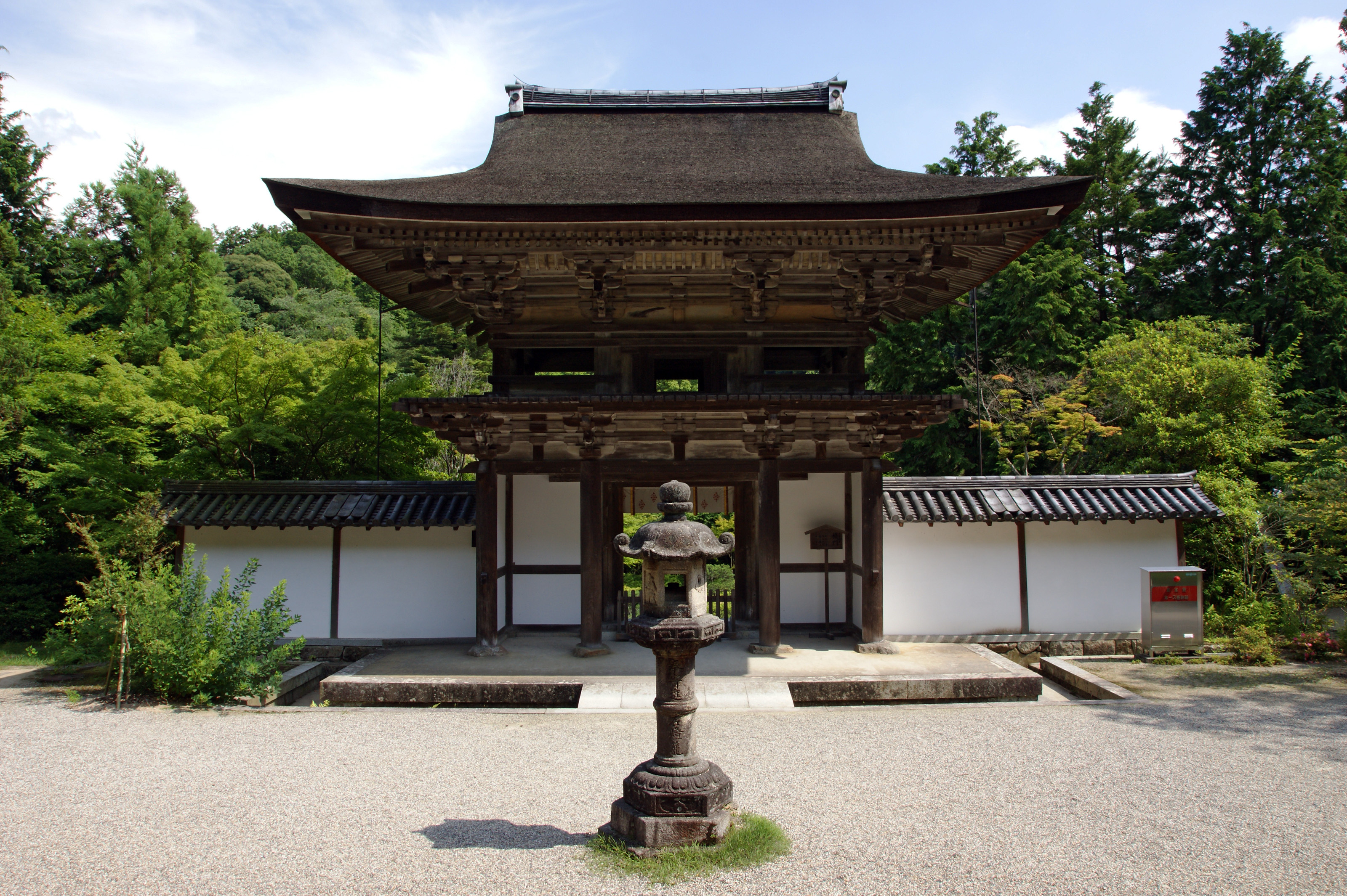 Enjoji in Nara, Nara prefecture, Japan